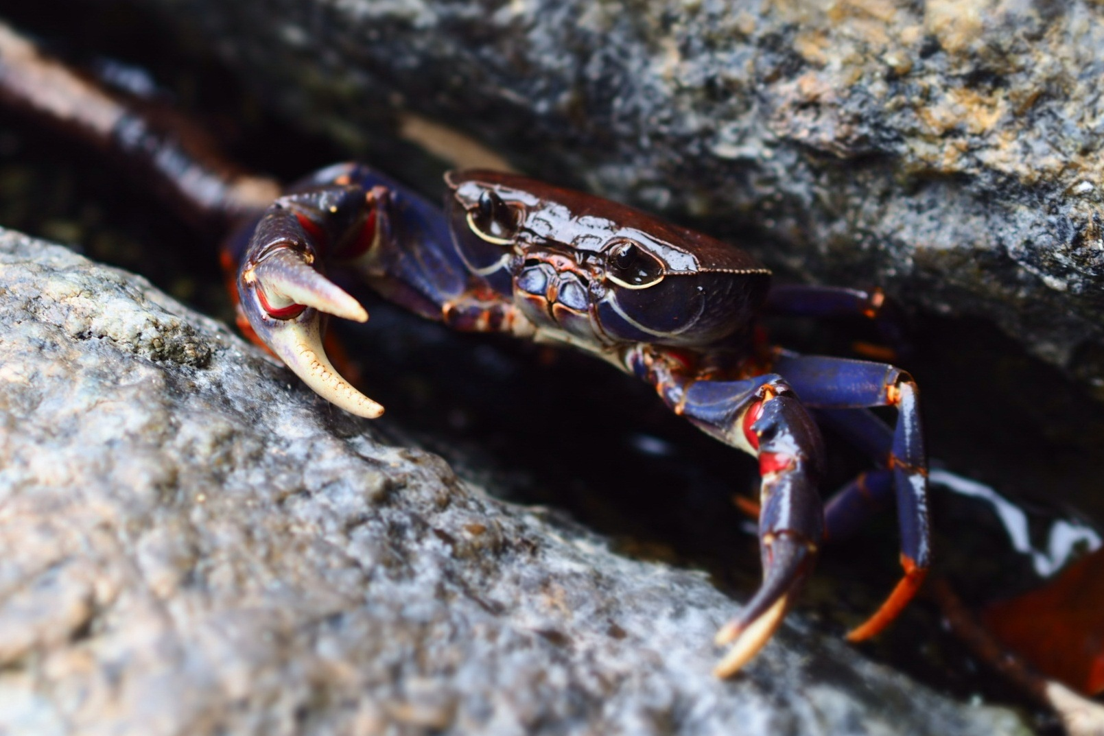 Demanietta renongensis from Pha Ngan Island, Thailand